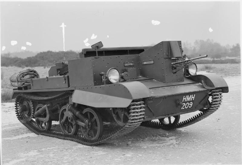 Tanks and Afvs of the British Army 1939-45 Carrier Bren, No 2, Mk I